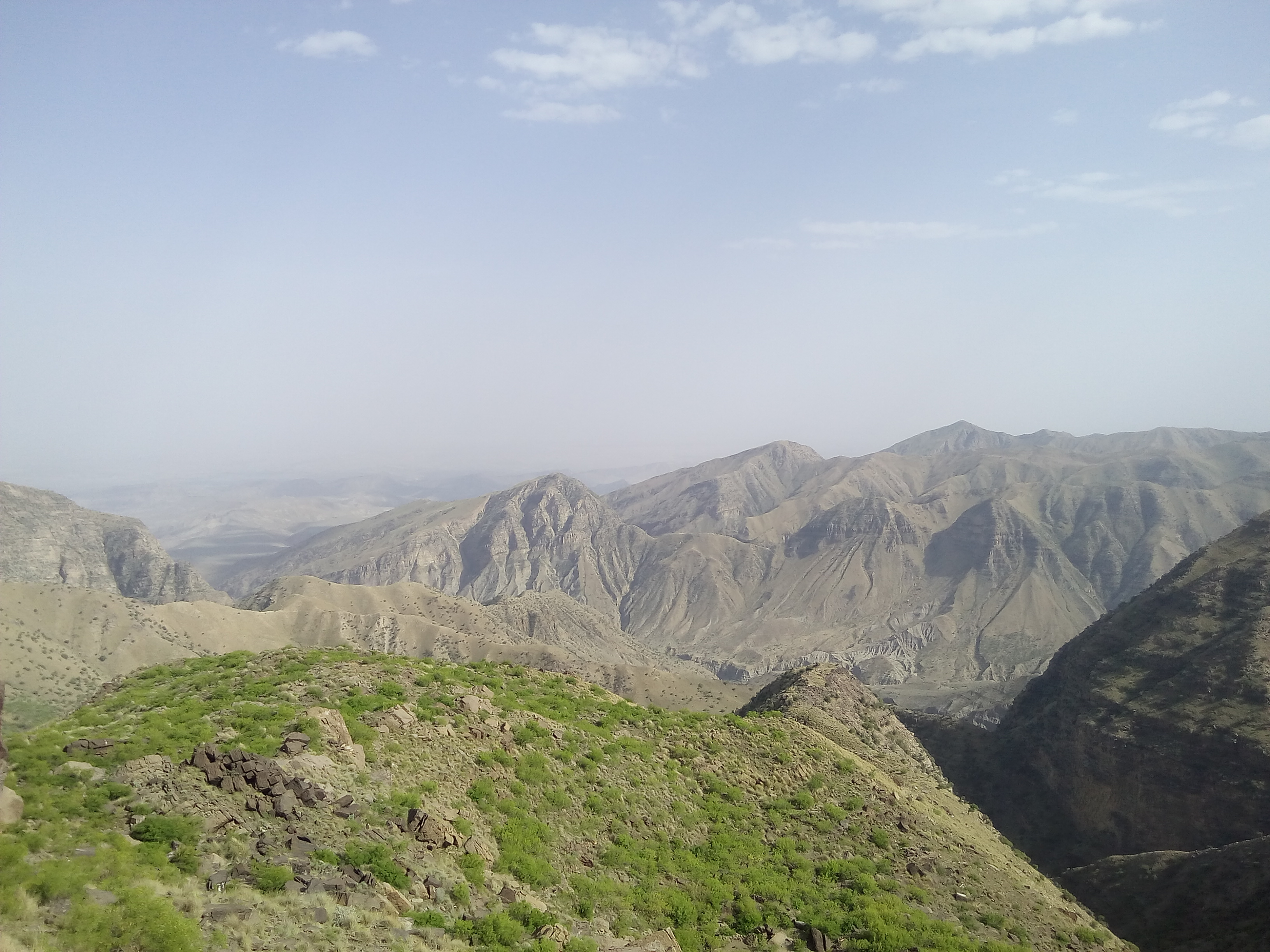 Take Pics While Minro Trip, Located Near DGKhan, Punjab